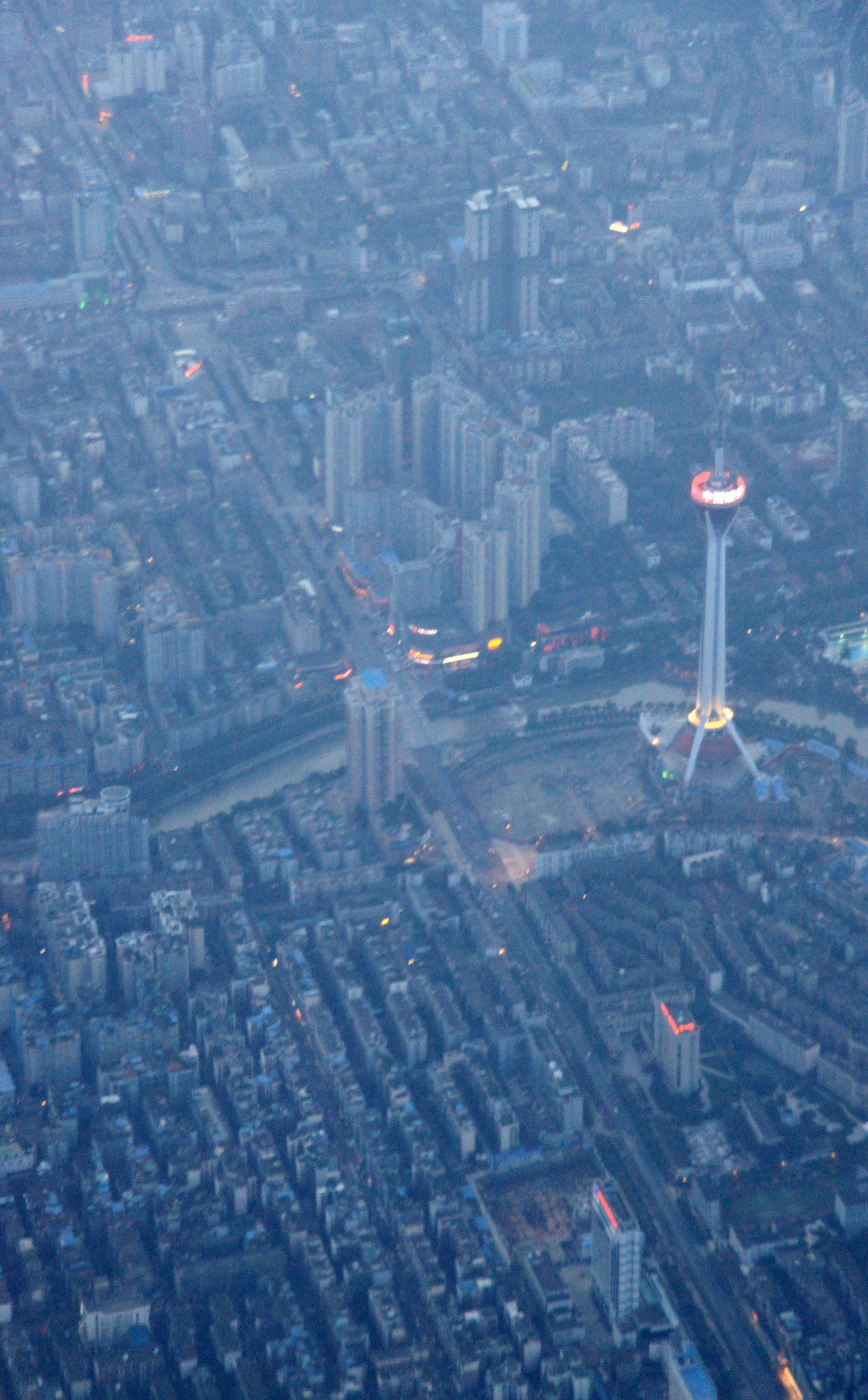 Picture of West Pearl Tower and Chengdu, China as taken by the Flickr user Erwyn van der Meer.